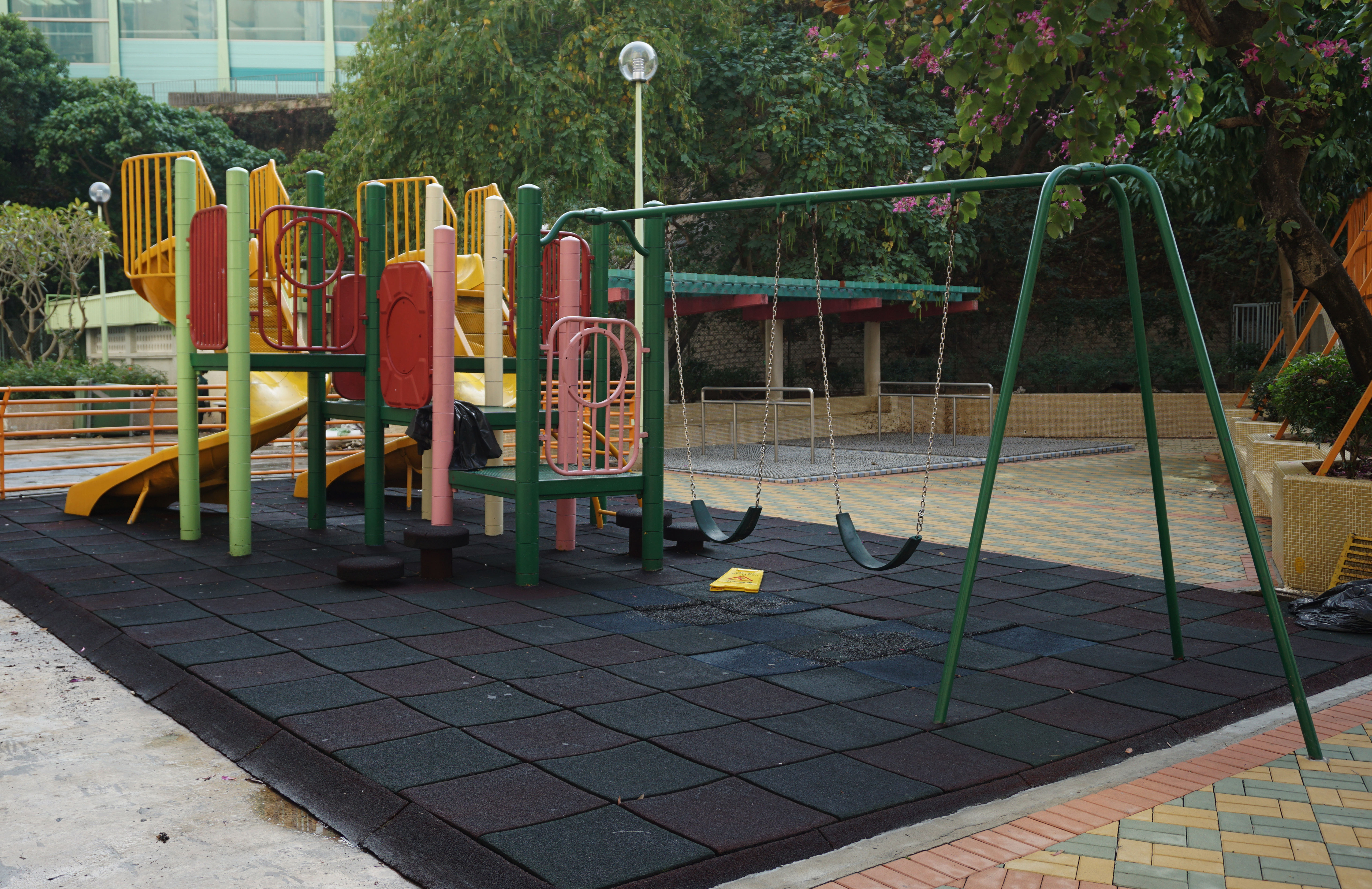 Cheung On Estate in Tsing Yi, Hong Kong.